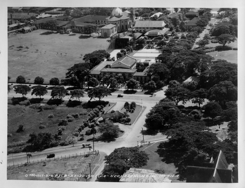 PictionID:38276865 - Catalog:AL-135A 097 Spanish Club Manila 22Aug30 - Filename:AL-135A 097 Spanish Club Manila 22Aug30.tif - This image is from a photo album donated to the Museum by JL Highfill, who was a photographer for the Navy before and during the Second World War-----------PLEASE TAG this image with any information you know about it, so that we can permanently store this data with the original image file in our Digital Asset Management System.-----------------SOURCE INSTITUTION: San Diego Air and Space Museum Archive